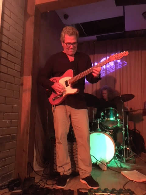 Randy Bernsen performing at the River Market in Fort Lauderdale.